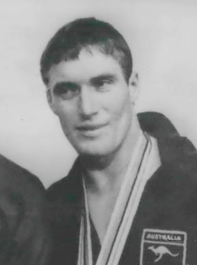 1964 Press Photo Olympic Swimmers Frank Wiegan, Don Schollander and Allan Wood